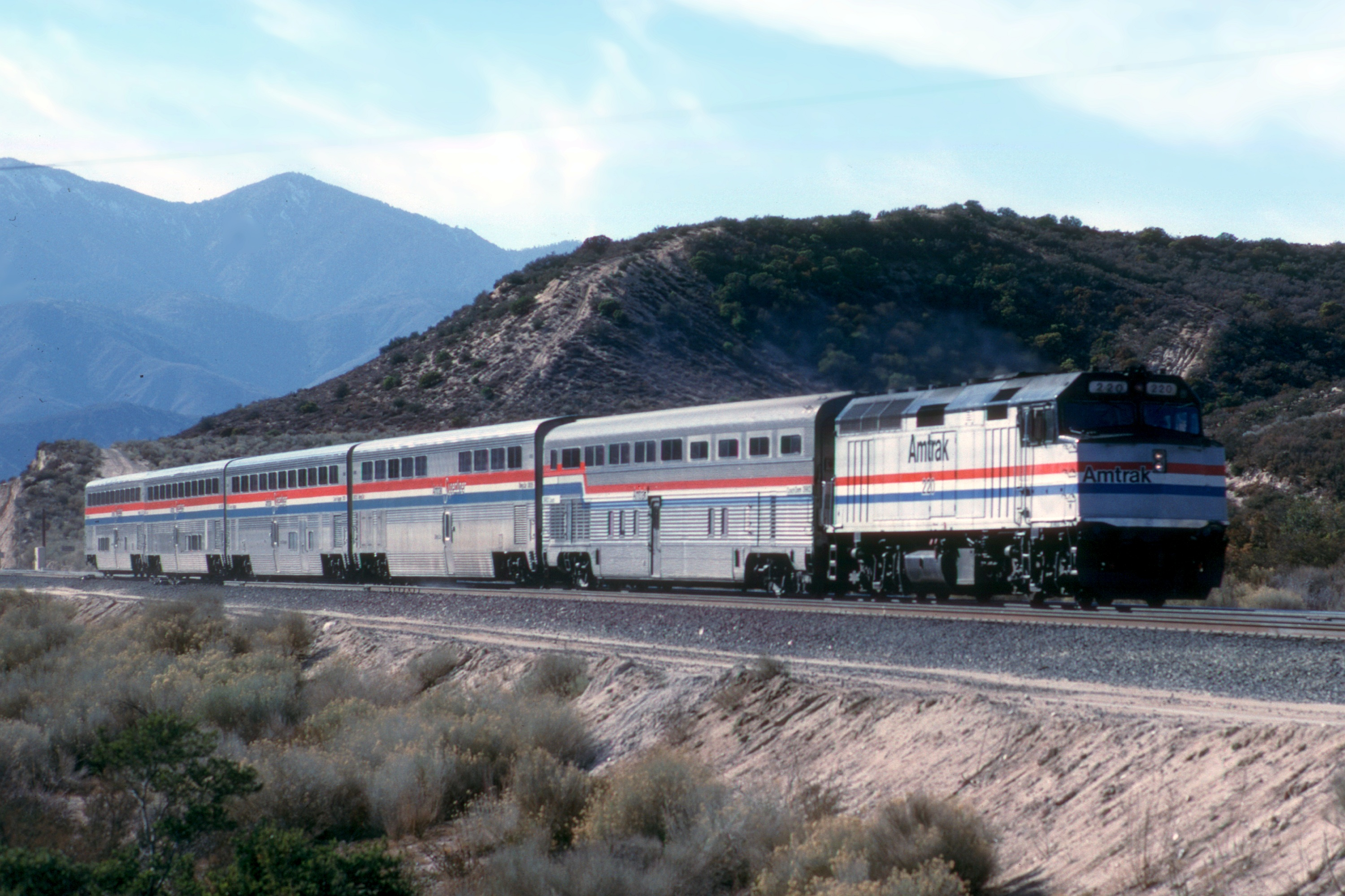 The eastbound Amtrak's Desert Wind at Summit on the Cajon Pass in 1991. The first car behind the locomotive is a Hi-Level; the rest are Superliner Is.